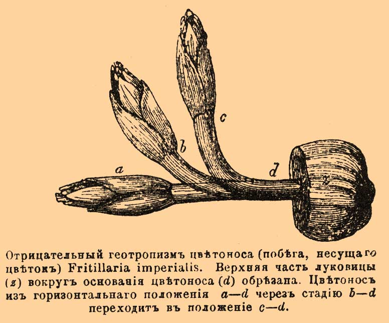 Illustration from Brockhaus and Efron Encyclopedic Dictionary (1890—1907)